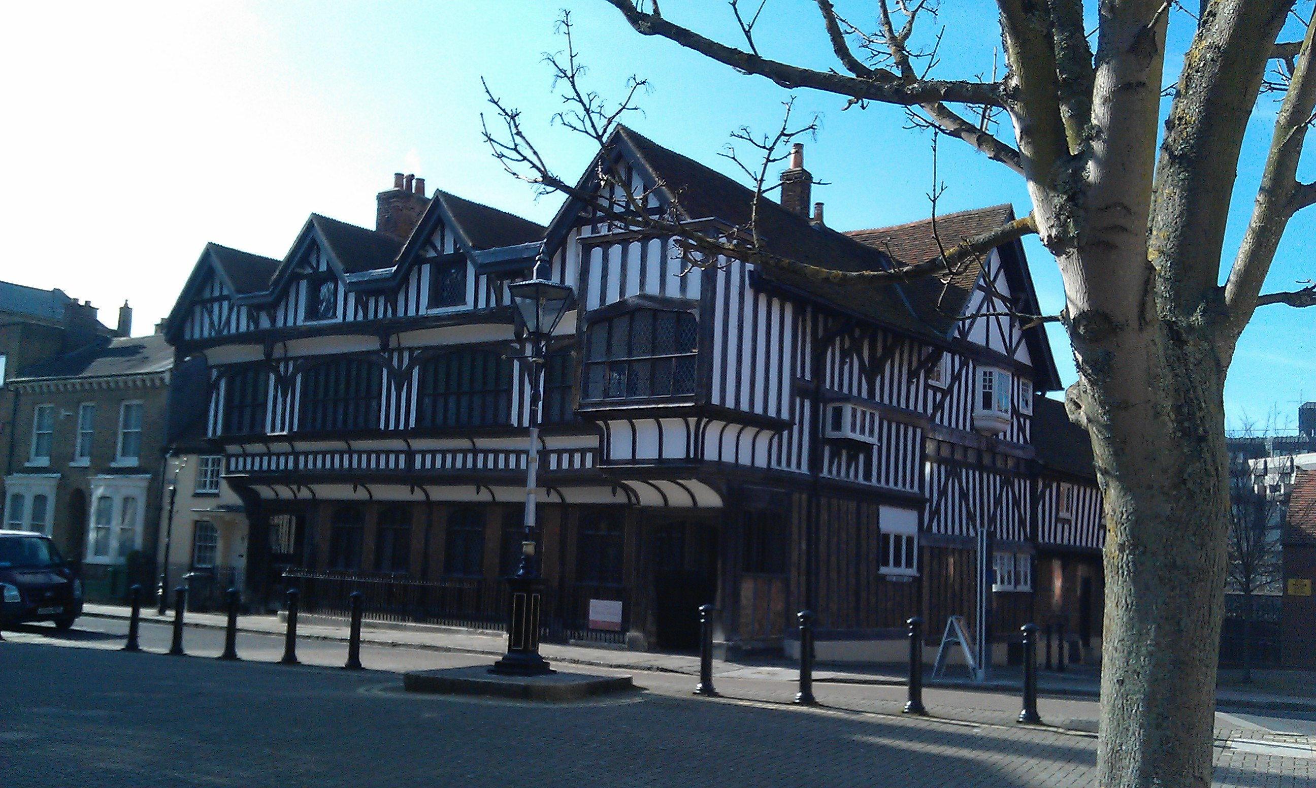 Southampton Tudor House, from St. Michael's Square, Bugle Street.